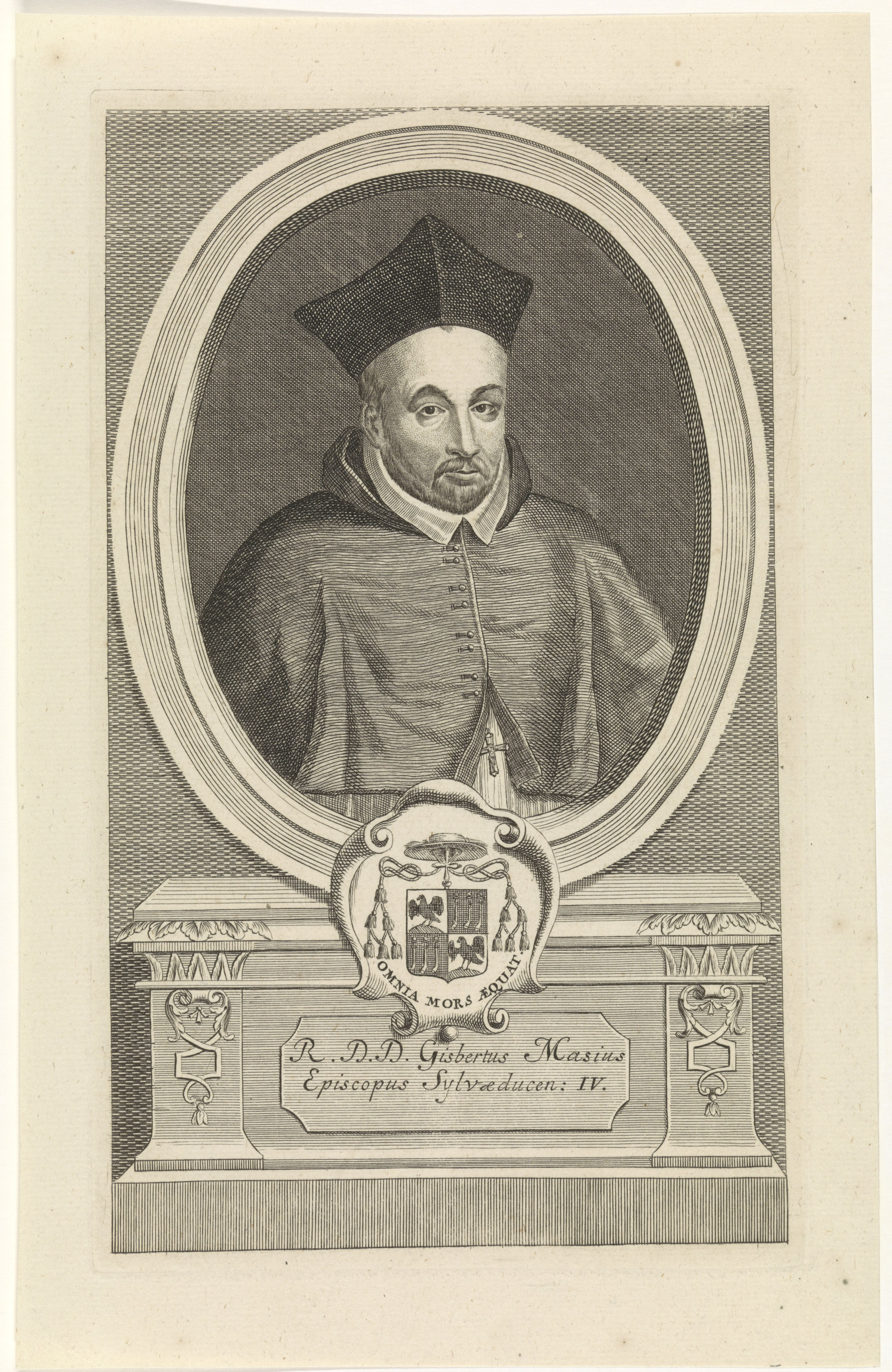 An engraved portrait of Ghisbertus Masius, 4th bishop of 's-Hertogenbosch, by Jan Baptist Jongelinck